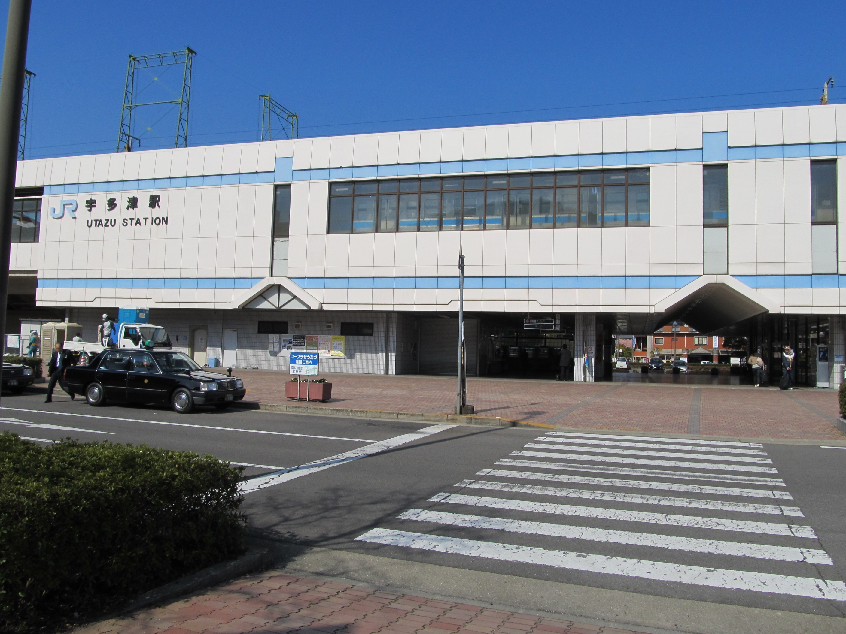 Shikoku Railway Yosan Line Utazu Station South Gate